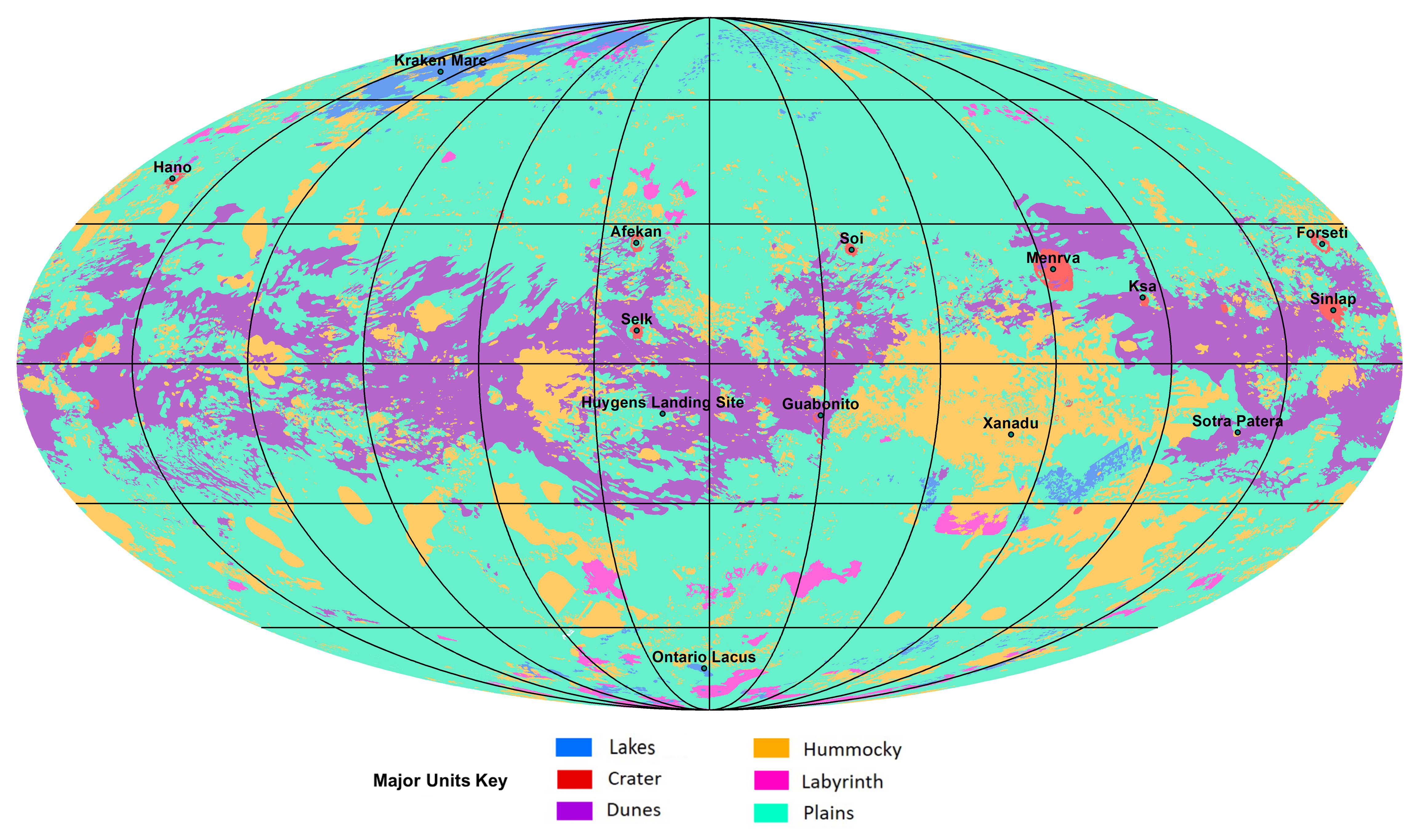 The first global geologic map of Saturn's largest moon, Titan, is based on radar and visible and infrared images from NASA's Cassini mission, which orbited Saturn from 2004 to 2017. Black lines mark 30 degrees of latitude and longitude. Map is in Mollweide projection, a global view that attempts to minimize the size or area distortion, especially at the poles (although shapes are increasingly distorted away from the center of the map). It is centered on 0 degrees latitude, 180 degrees longitude. Map scale is 1:20,000,000. In the annotated figure, the map is labeled with several of the named surface features. Also located is the landing site of the European Space Agency's (ESA) Huygens Probe, part of NASA's Cassini mission. The map legend colors represent the broad types of geologic units found on Titan: plains (broad, relatively flat regions), labyrinth (tectonically disrupted regions often containing fluvial channels), hummocky (hilly, with some mountains), dunes (mostly linear dunes, produced by winds in Titan's atmosphere), craters (formed by impacts) and lakes (regions now or previously filled with liquid methane or ethane). Titan is the only planetary body in our solar system other than Earth known to have stable liquid on its surface — methane and ethane. The map was developed using Cassini radar data and Imaging Science Subsystem (ISS) images.